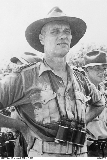 New Guinea. 21 January 1944. Informal portrait of Brigadier William John Victor Windeyer DSO and Bar in a forward area. Brigadier Windeyer served as Commanding Officer of the Sydney University Regiment between 1937 and 1940, and post war served as a judge of the High Court of Australia between 1958 and 1972.